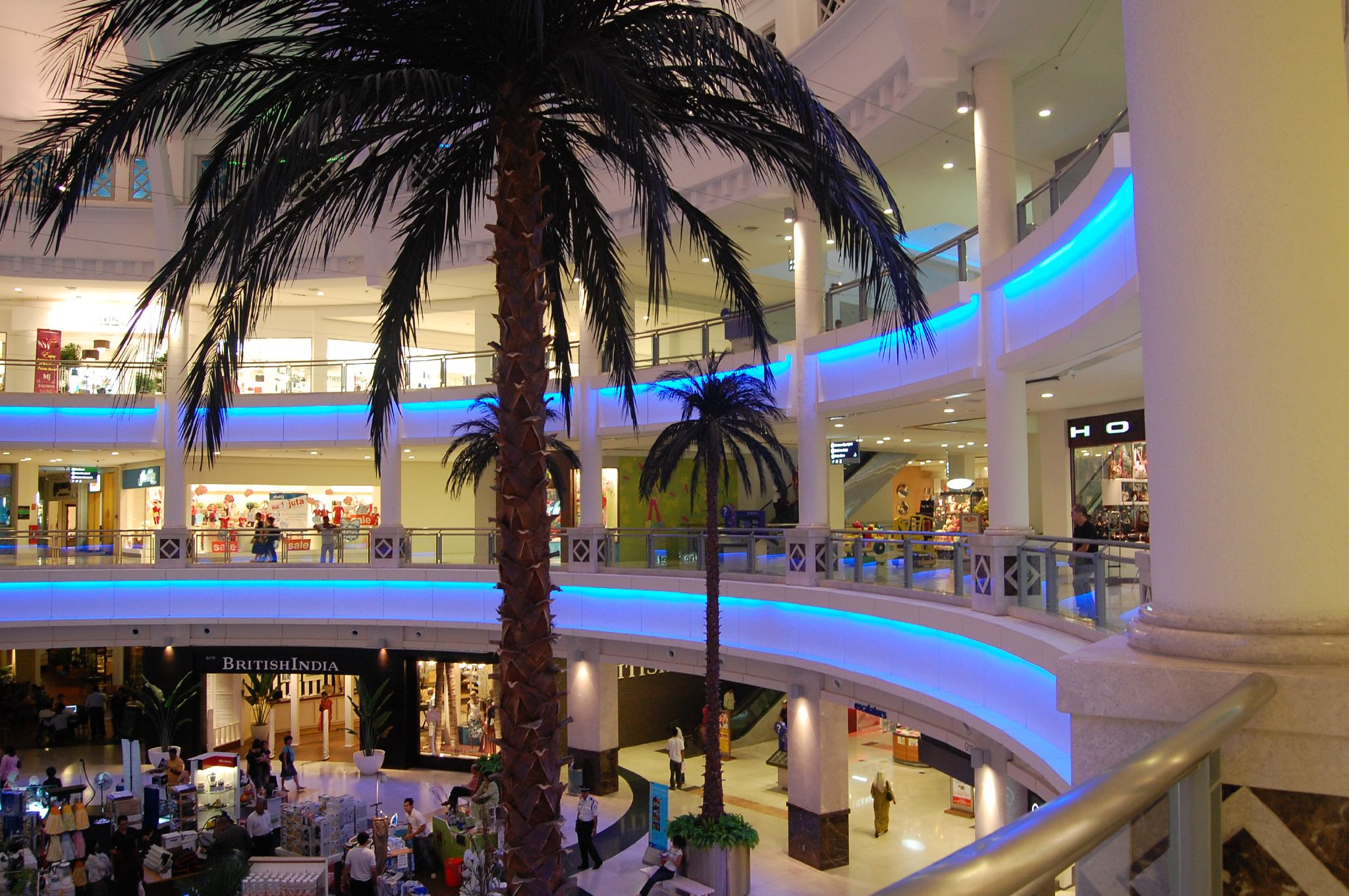 inside The Curve